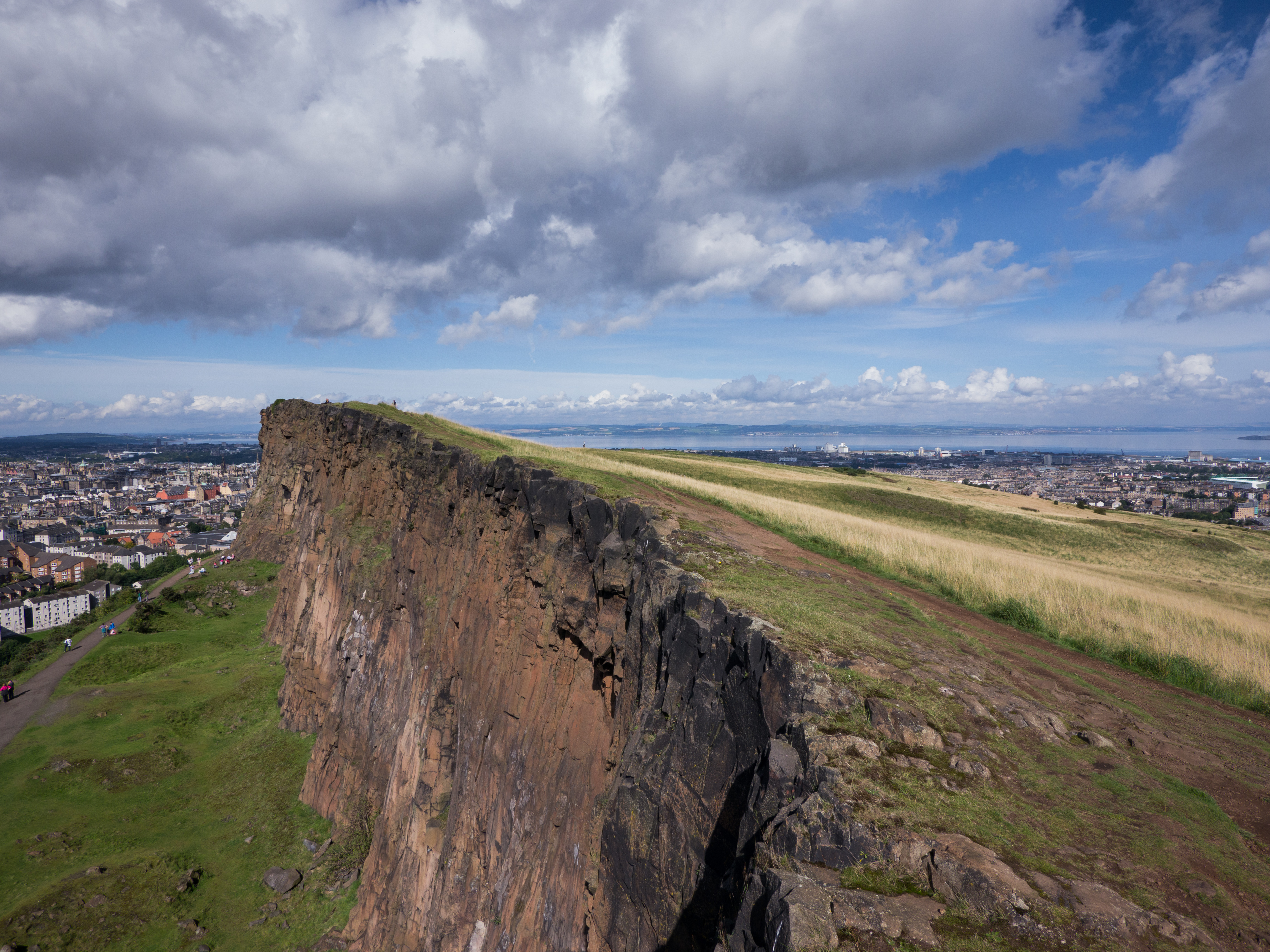 Arthur`s Seat in Edinburgh